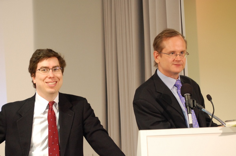 Law Professors Jonathan Zittrain (L) and Lawrence Lessig (R)